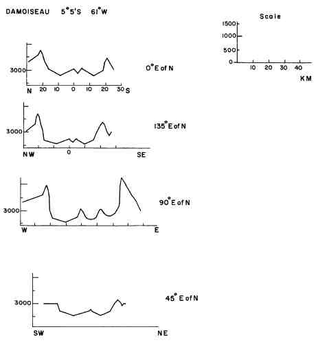 Damoiseau crater cross section